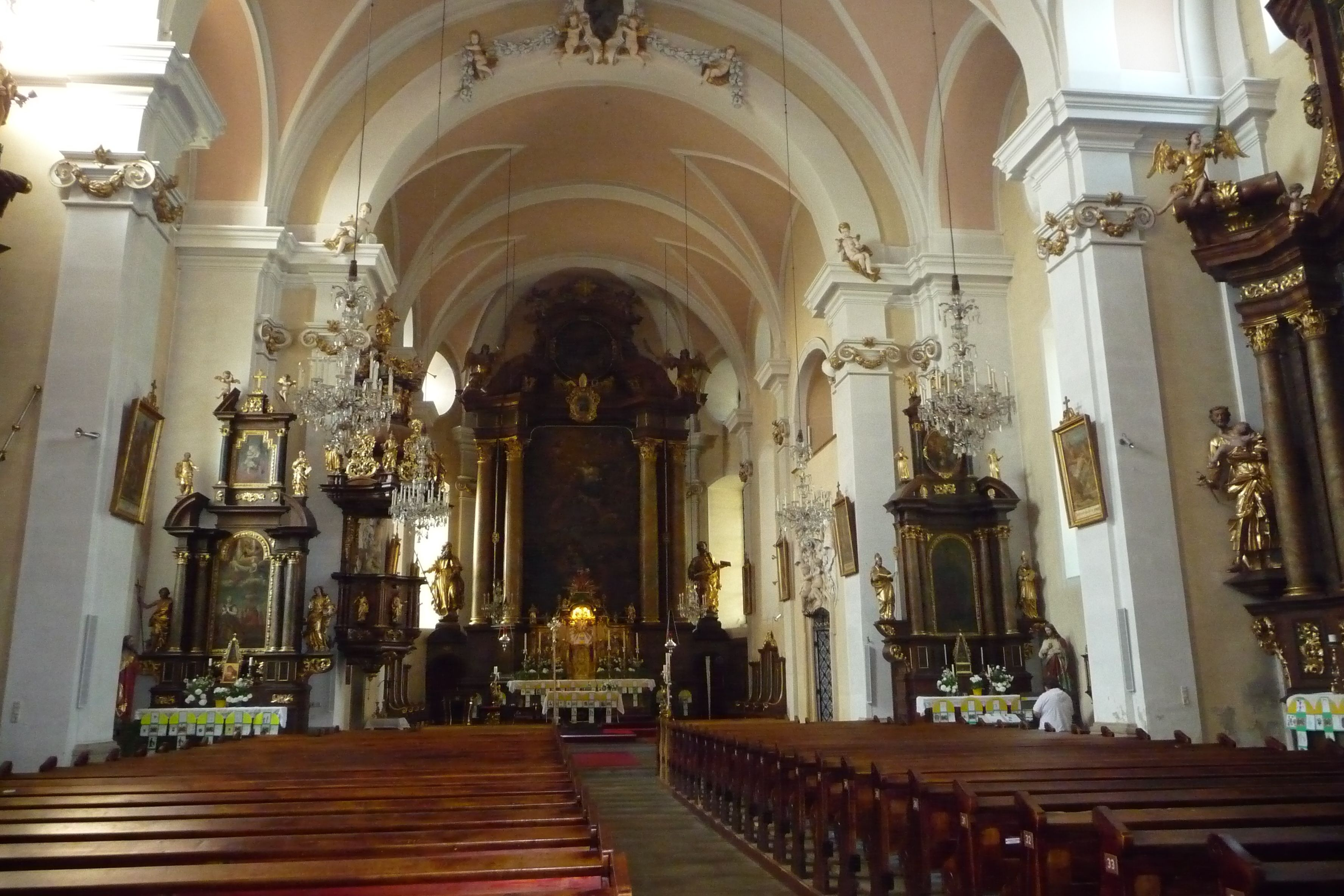 Inside of parish church in Rohrbach Upper Austria